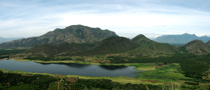 Manjalaru Dam, Theni District, Tamil Nadu in southern India.